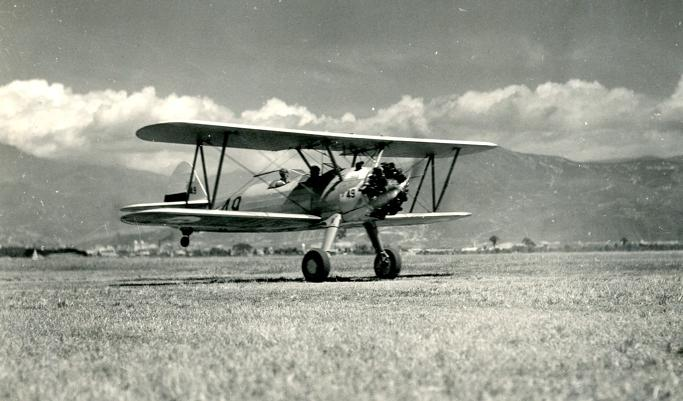 This aircraft was purchased in the Colombian Air Force during the Second World War, only to military training and U.S. origin. Entered service in 1942, was withdrawn from service in 1957.